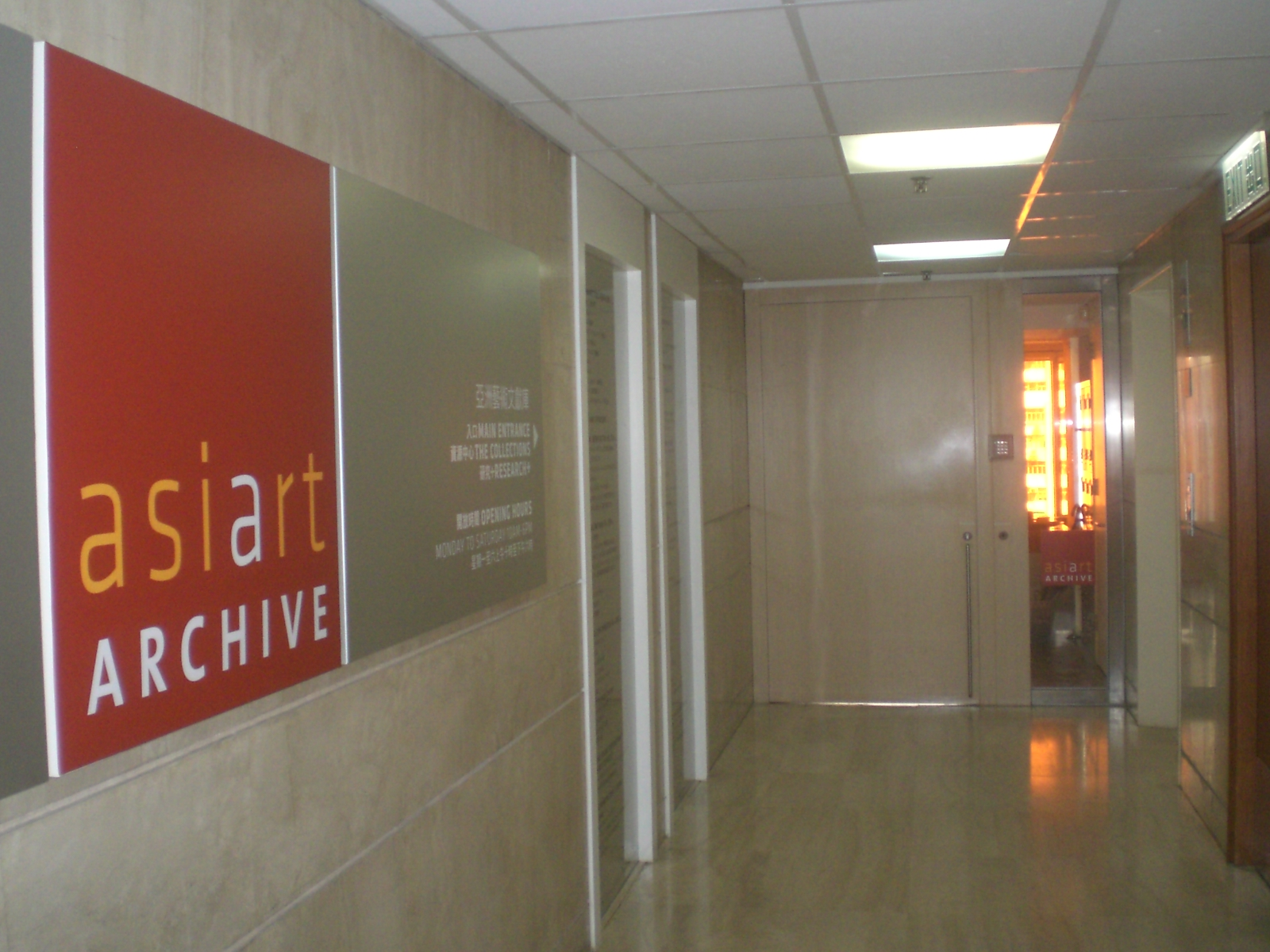 亞洲藝術文獻庫 - 11/F Hollywood Centre, 233 Hollywood Road, Sheung Wan, Hong Kong